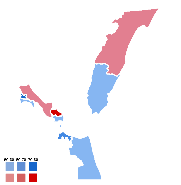 This is a map displaying the results of the 2018 Virginia 2nd Congressional District Election by county-level division.